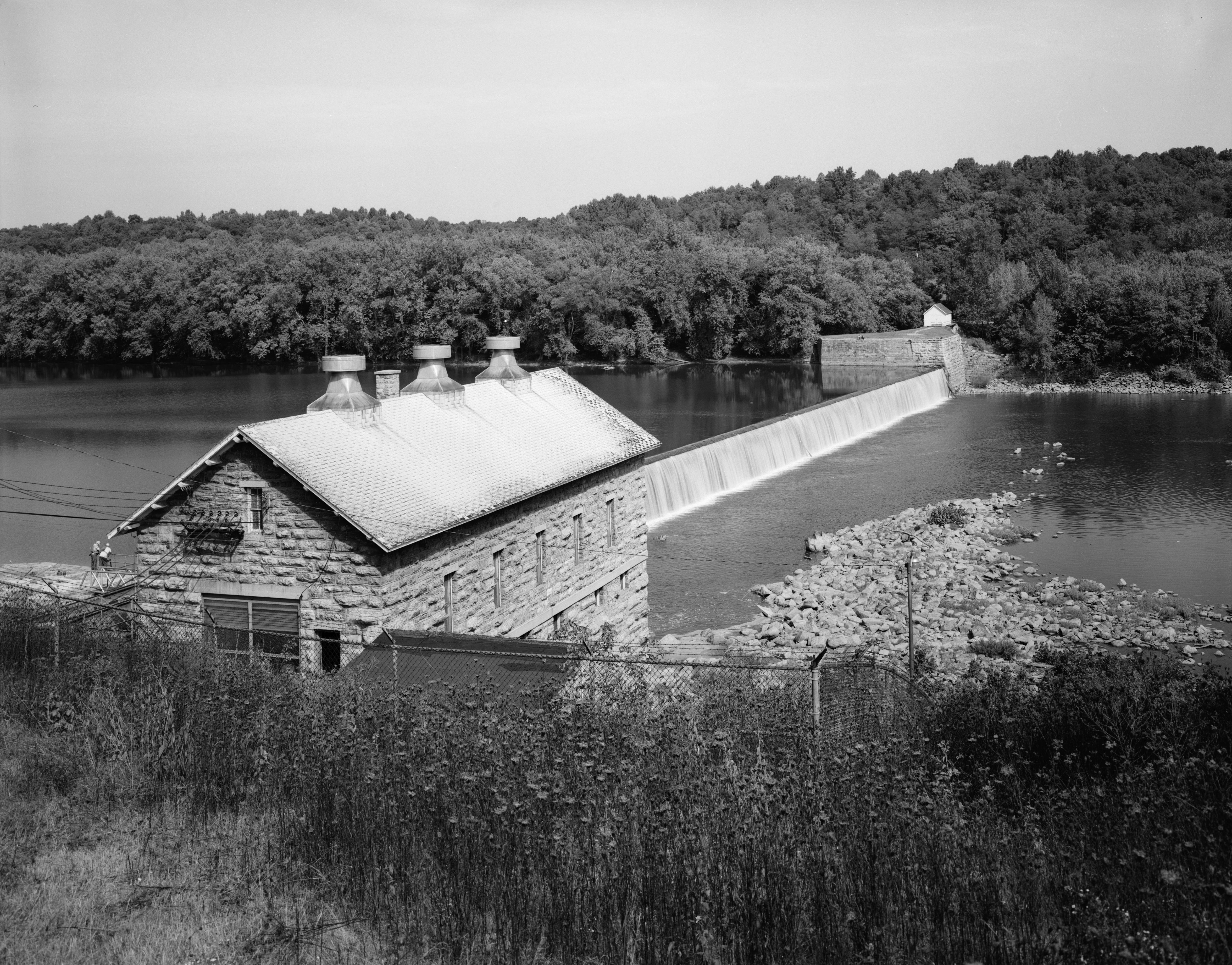 Southern side of Power Plant and Dam No. 4 on the Potomac River, located above Shepherdstown in Berkeley County, West Virginia, United States. Built in 1909, it is listed on the National Register of Historic Places.